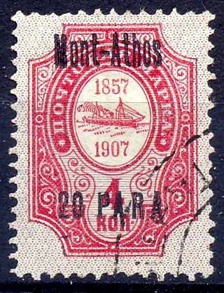 Postage stamps of Russian empire, P.O. in Levant. Issue for Mount Athos, 20 para on 4 Коп.